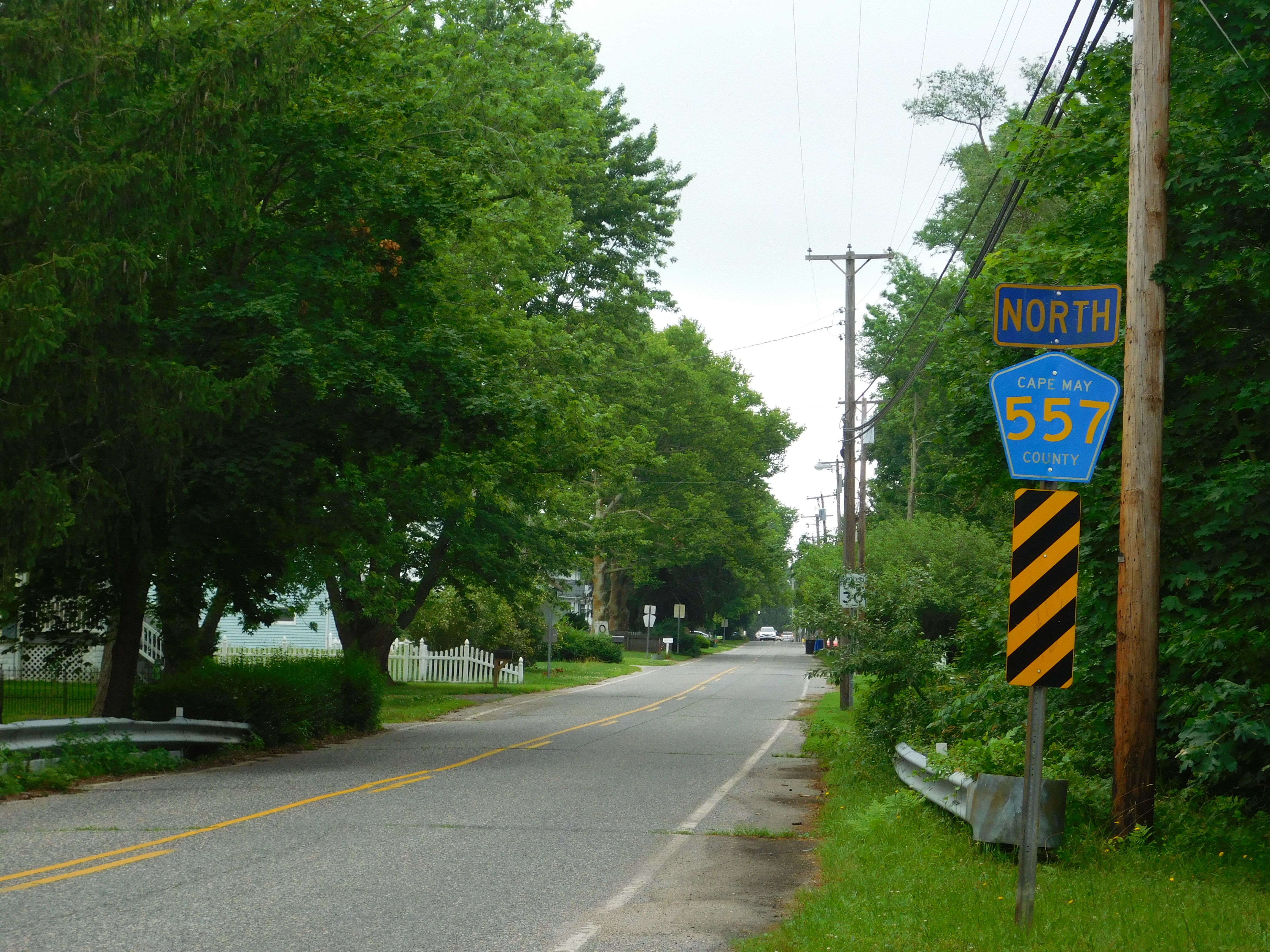 County Route 557 near the Tuckahoe railroad station in Tuckahoe, New Jersey.